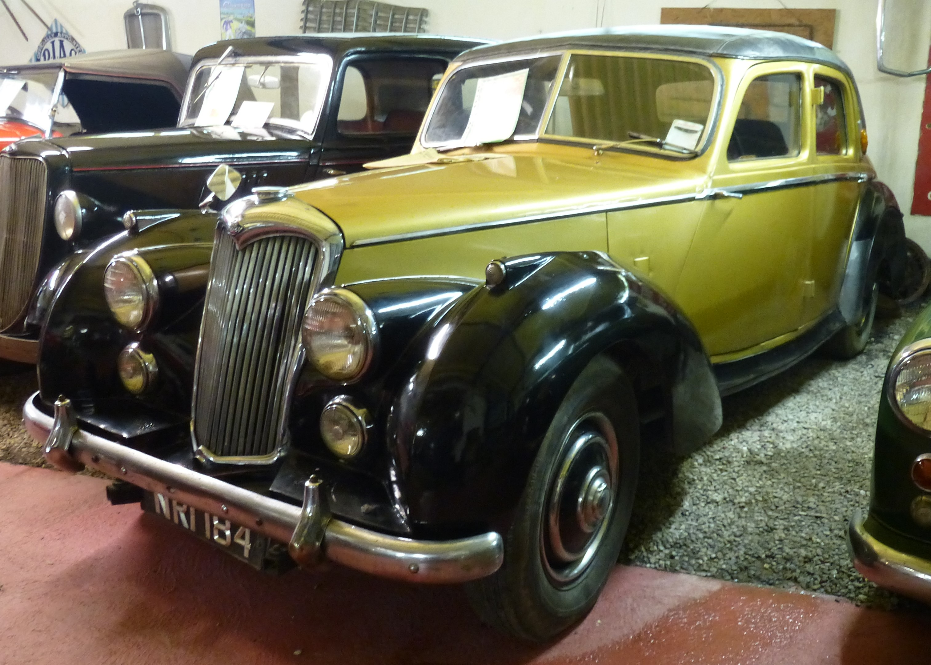 Riley RME von G. A. Brittain aus Irland